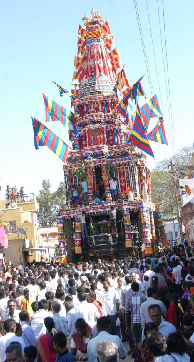 ஒசூர் தேர்